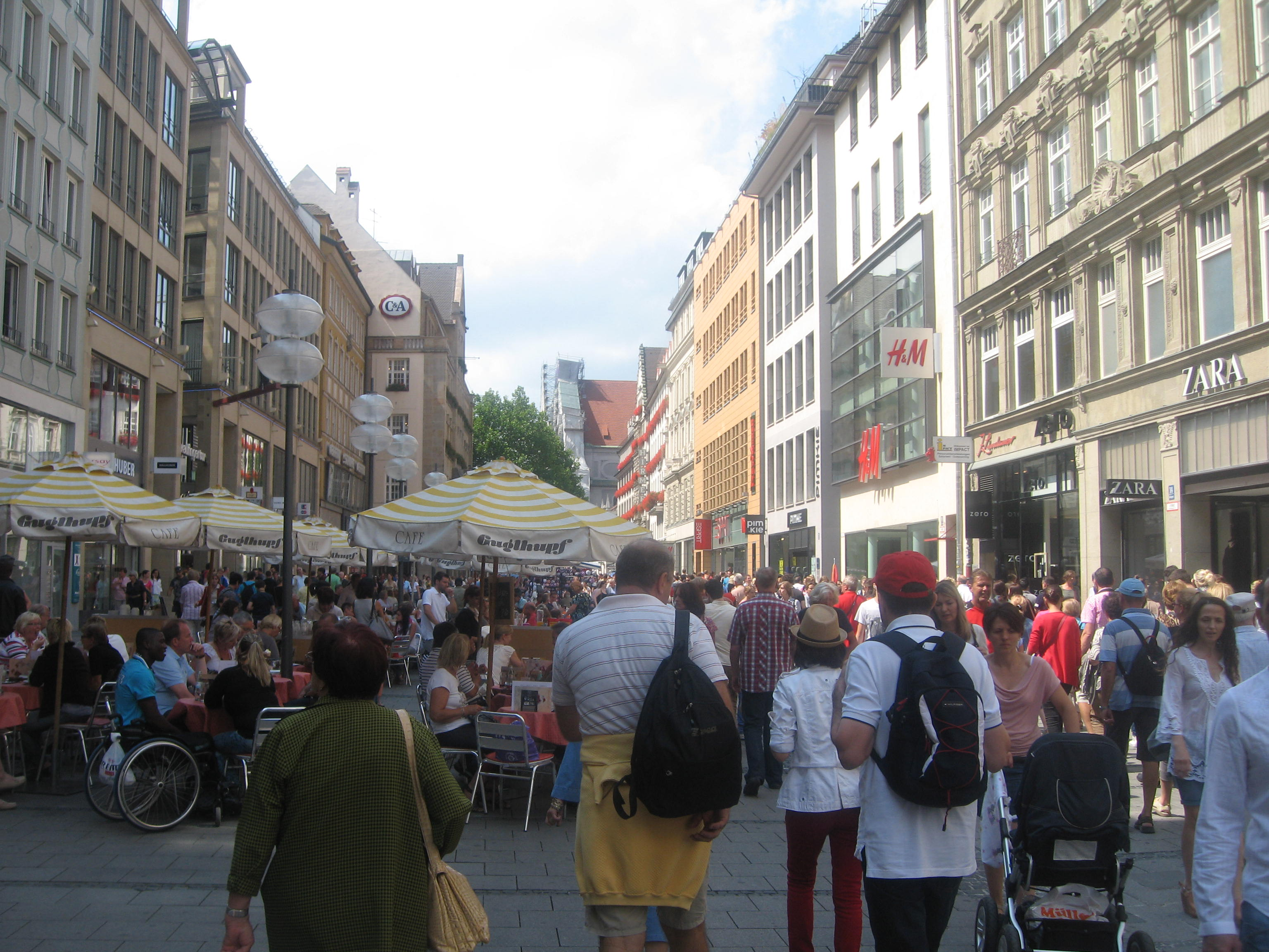 Kaufingerstraße Munchen